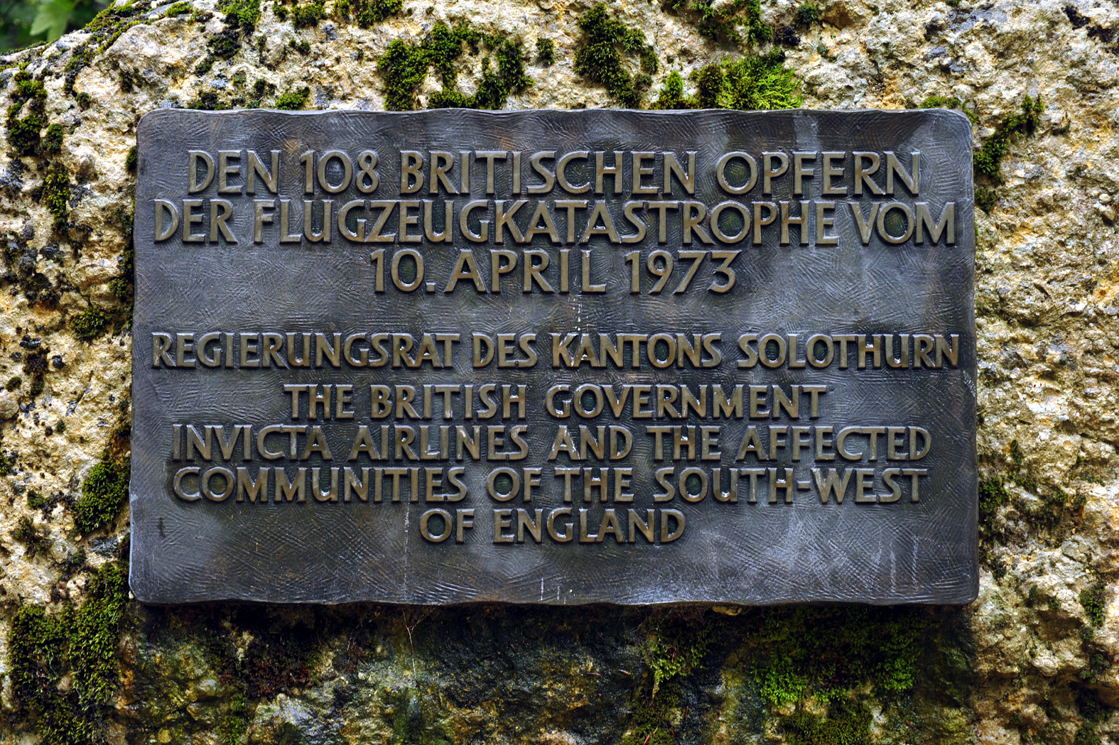 Plaque for the British victims of the crash of the Invicta International Airways flight 435 10th April 1973 near Hochwald; Solothurn, Switzerland.